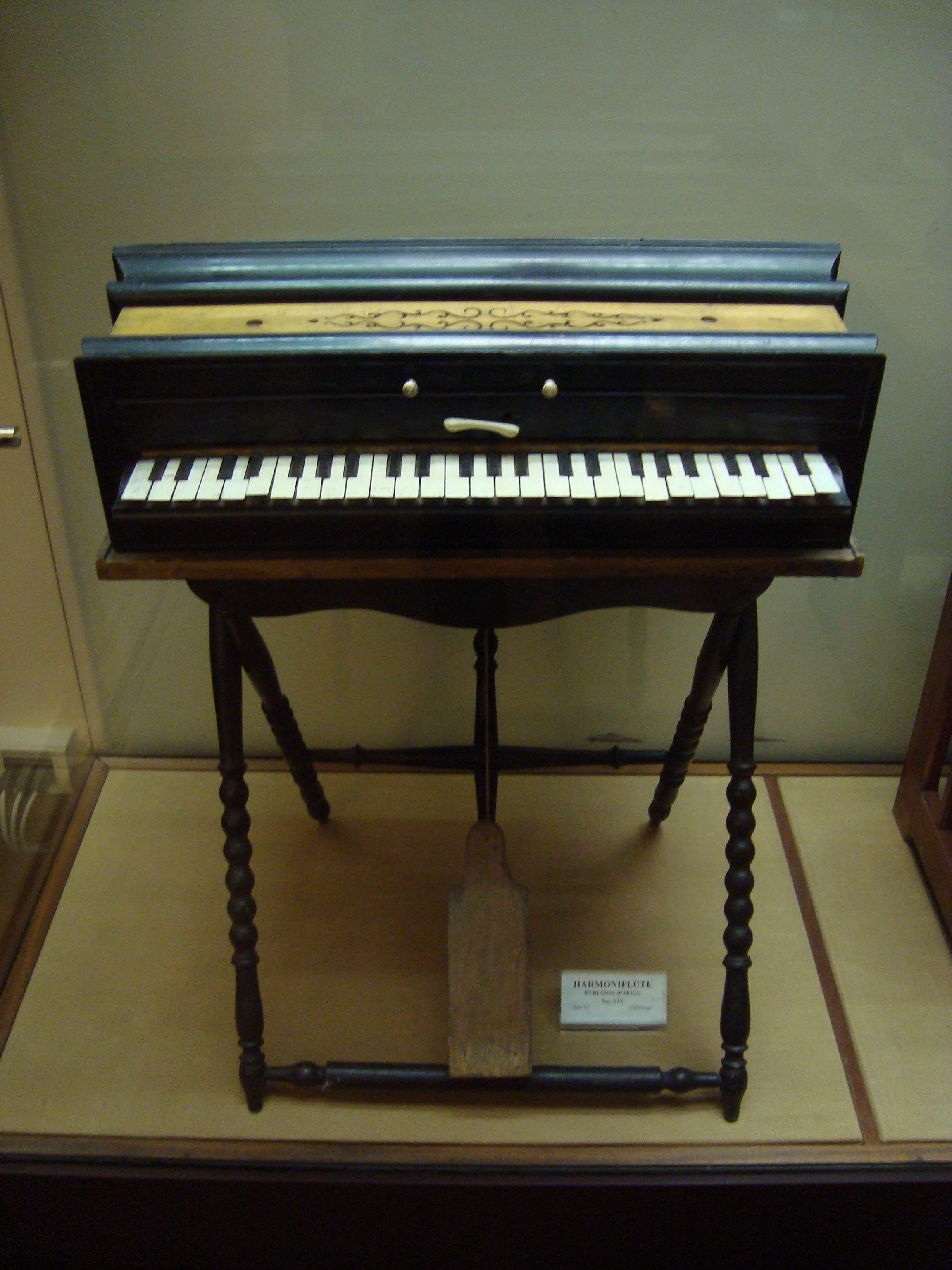 from the late nineteenth century by the manufacturing Busson, Paris, Museo Nazionale degli Strumenti Musicali di Roma